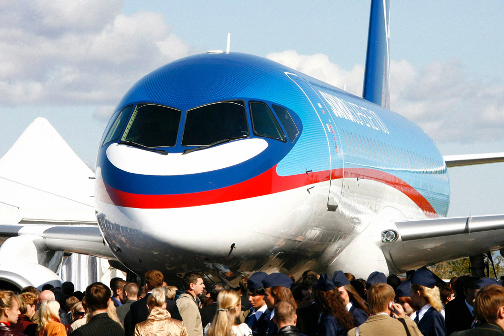 “First roll-out of Sukhoi SuperJet 100 airliner at the Komsomolsk-On-Amur Aircraft Plant”. Sukhoi Civil Aircraft Company rolls out its SuperJet 100 airliner at the Komsomolsk-On-Amur Aircraft Plant in the Russian Far East where subsequent production will be sited.